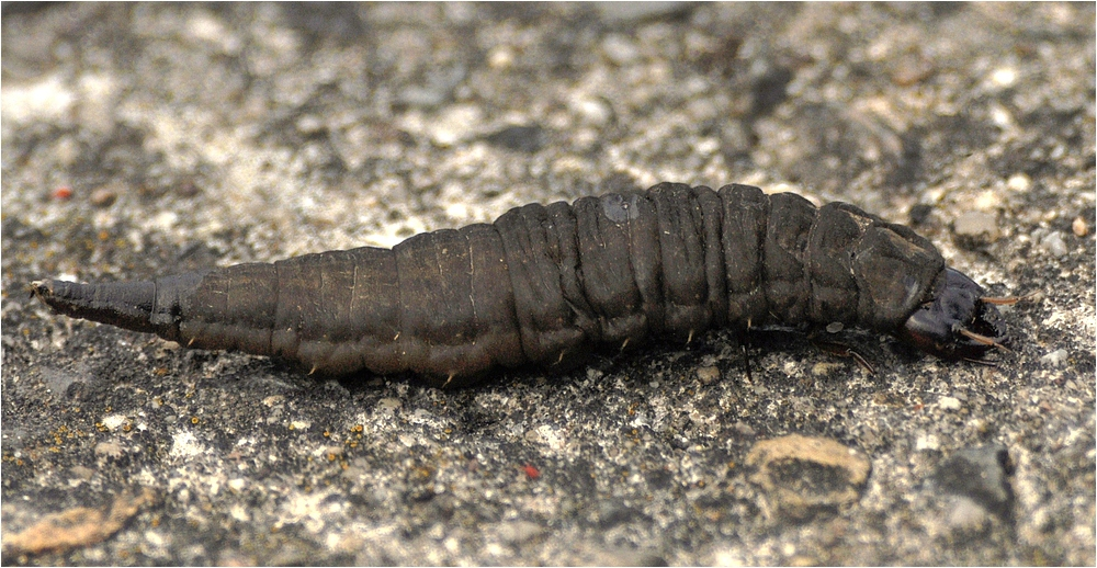 Larva of Hydrous piceus, Germany